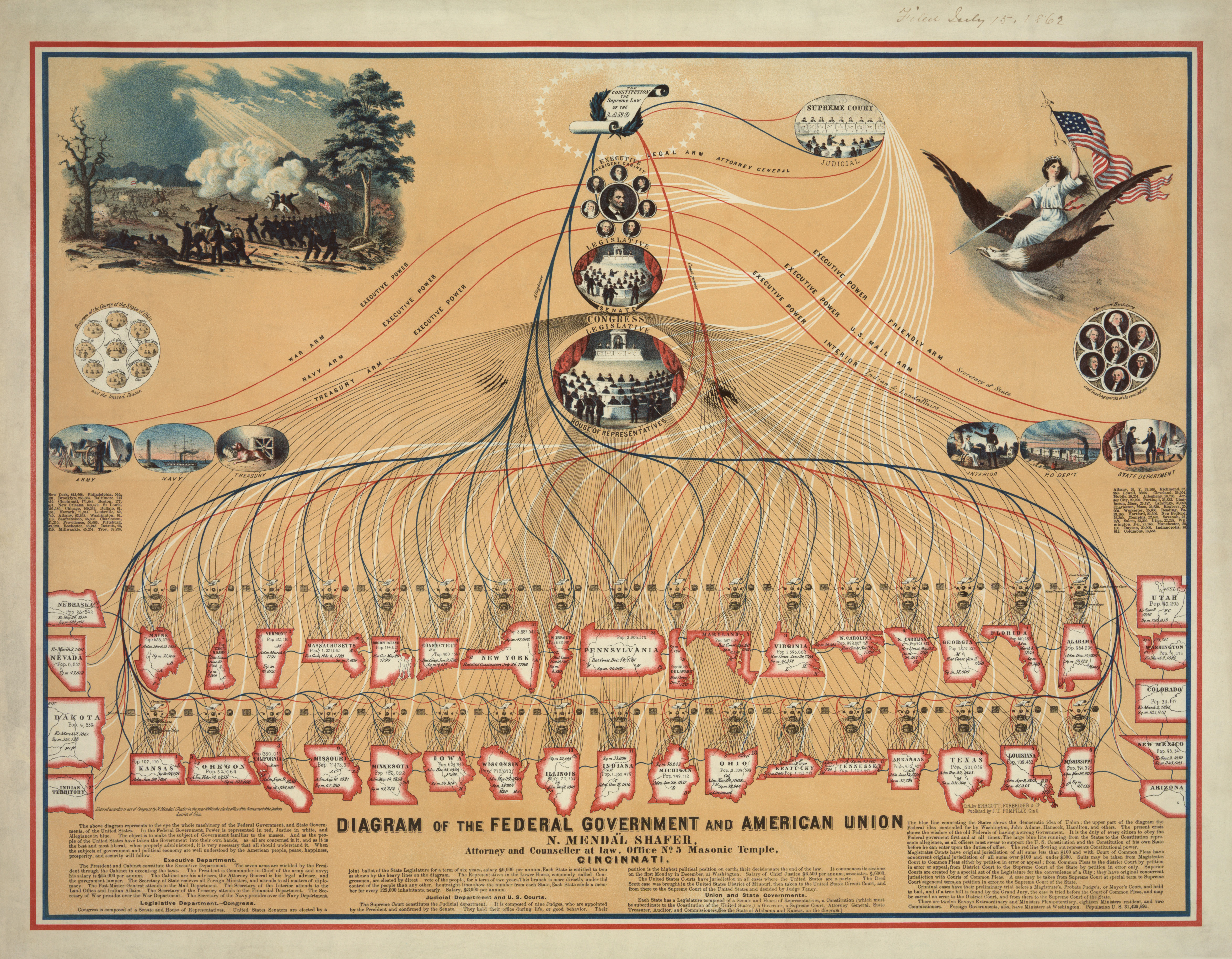 Print shows the outline of 42 states and Indian Territory, a Civil War battle scene, and Liberty holding U.S. flag and sword riding on the back of an eagle, Lincoln and his cabinet (the secretaries linked to images of the Army, Navy, Treasury, Interior, P.O. Dept., and State Department) representing the "Executive" branch, the Senate and the House of Representatives representing the "Legislative" branch, and the Supreme Court representing the "Judicial" branch of the federal government. Also, cameo portraits of "The seven builders and leading spirits of the revolution."